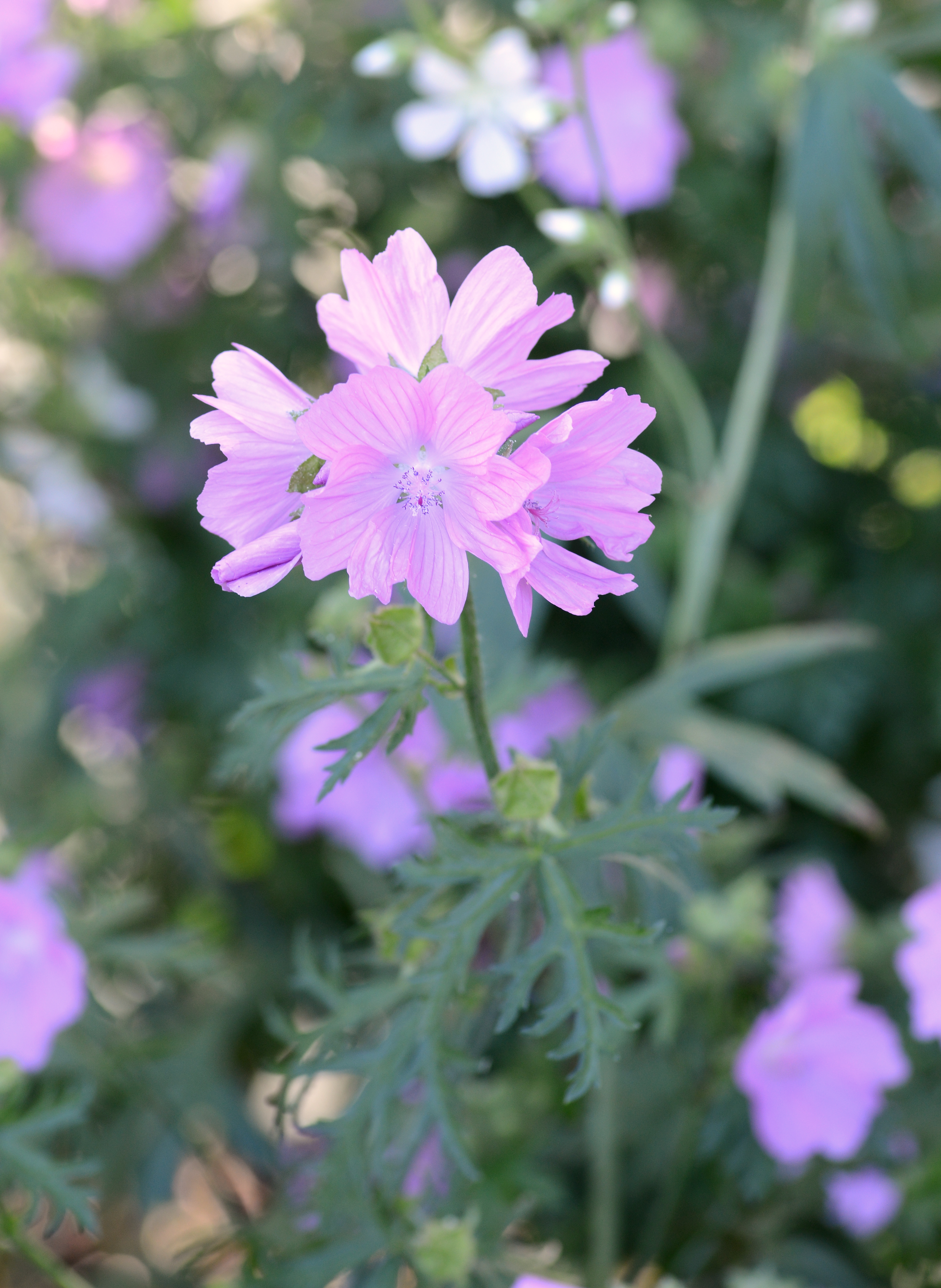 Musk Mallow (Malva moschata) at the Botanical Garden in Helsinki